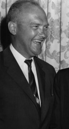 From left to right, Iowa Governor Norman Erbe, Admiral Lewis Strauss, and Reginald Figge at the dedication of the Herbert Hoover Presidential Library in West Branch, Iowa. Copyright listed as "unrestricted" here.